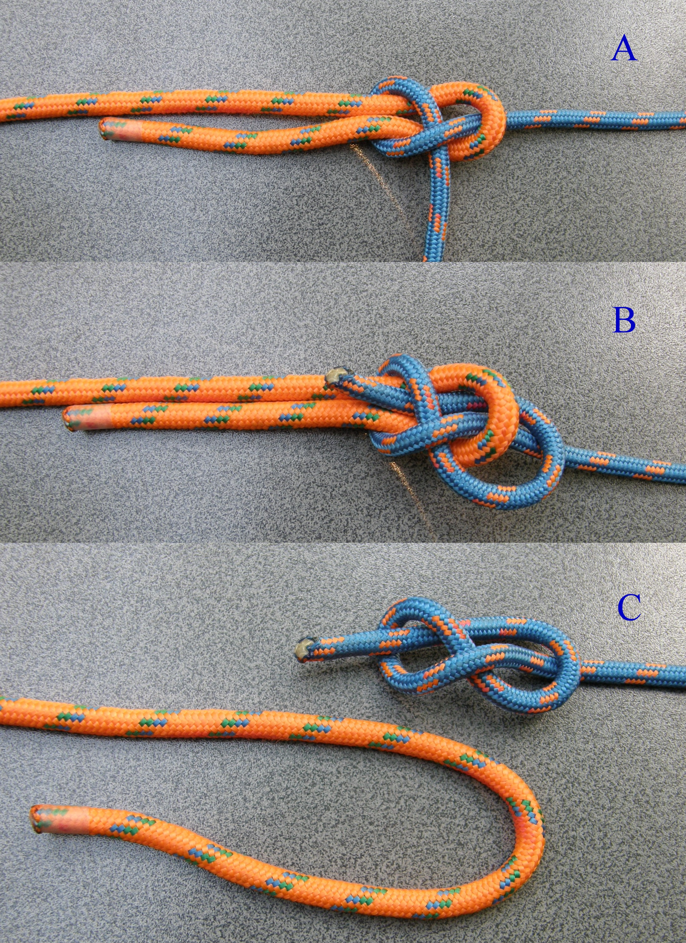 Sheet bends with 8-Knot